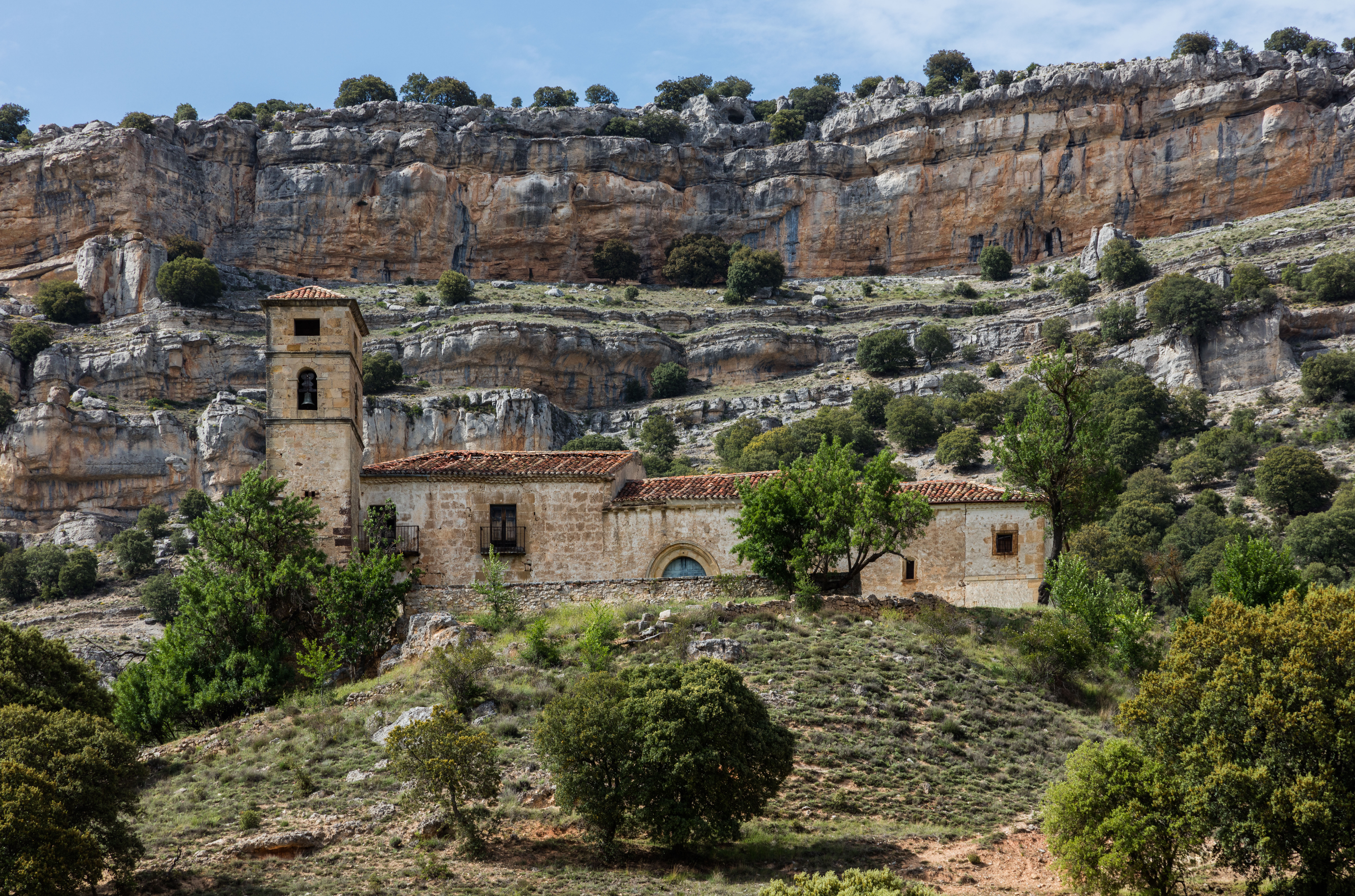 Monastery of La Monjía, a fortified monastery located in Fuentetoba, municipality of Golmayo, near the Pico Frentes mountain, Province of Soria, Spain. The Romanesque church was erected by Benedictines in the 11th century but the fortification was added in the 16th century by the Counts of Castejón.